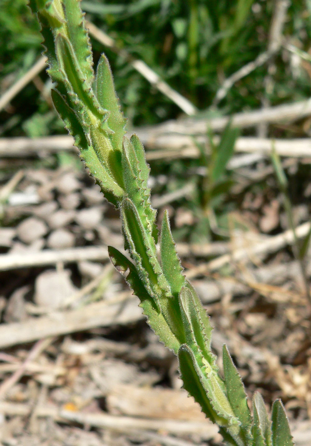 Lepidium campestre in the wash at the junction of 157 and 158 in Kyle Canyon, Spring Mountains, southern Nevada (elev. about 2100 m) - although this species is not on the Spring Mountains checklist (Mentzelia #8), the clasping dentate leaves are distinctive and not seen on any of the documented taxa; also this species is widespread in the western US and the Utah flora notes that it has been spreading southward